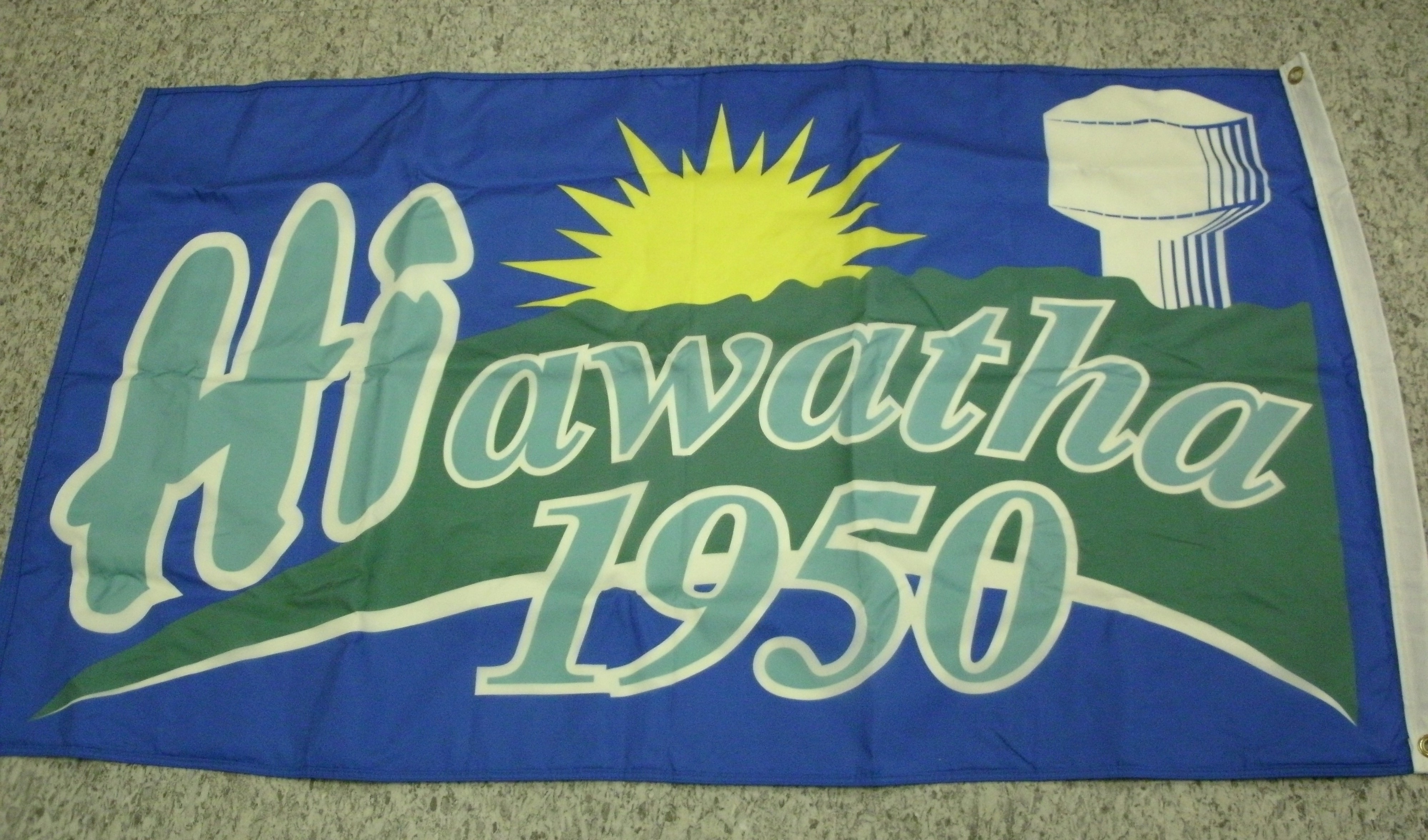 A picture taken of the Hiawatha Iowa flag with the permission of the city clerk of Hiawatha, Iowa. Flag was laid out flat to be photographed.